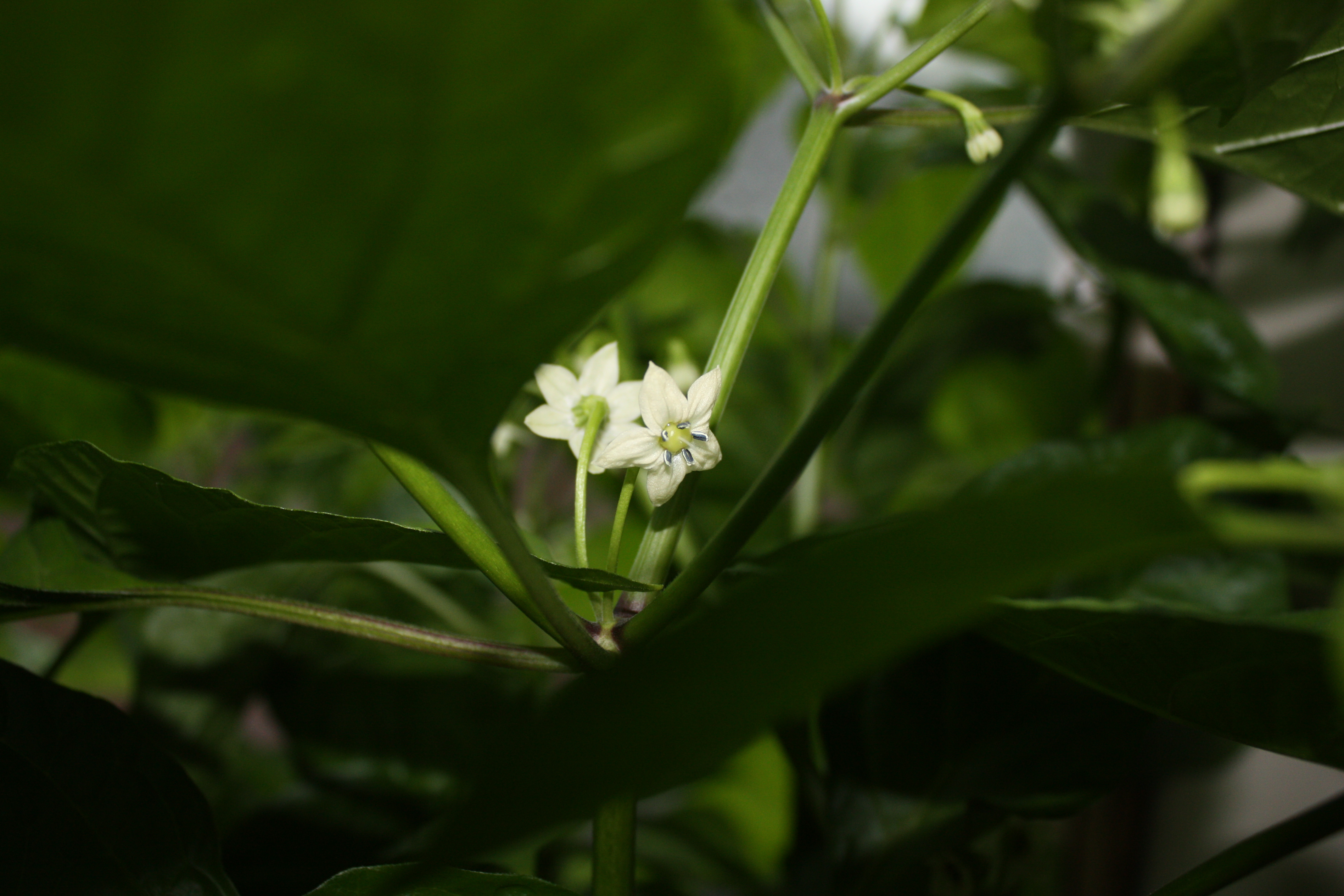 This figure shows a close-up high resolution photograph of the flower of Capsicum chinense, Madame Jeanette variety. The flower is fairly typical for the Capsicum genus from the Solanaceae family.